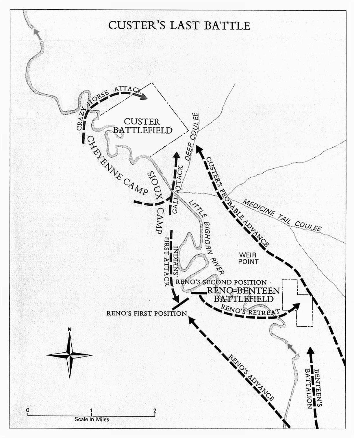 Plan of the Battle of the Little Bighorn